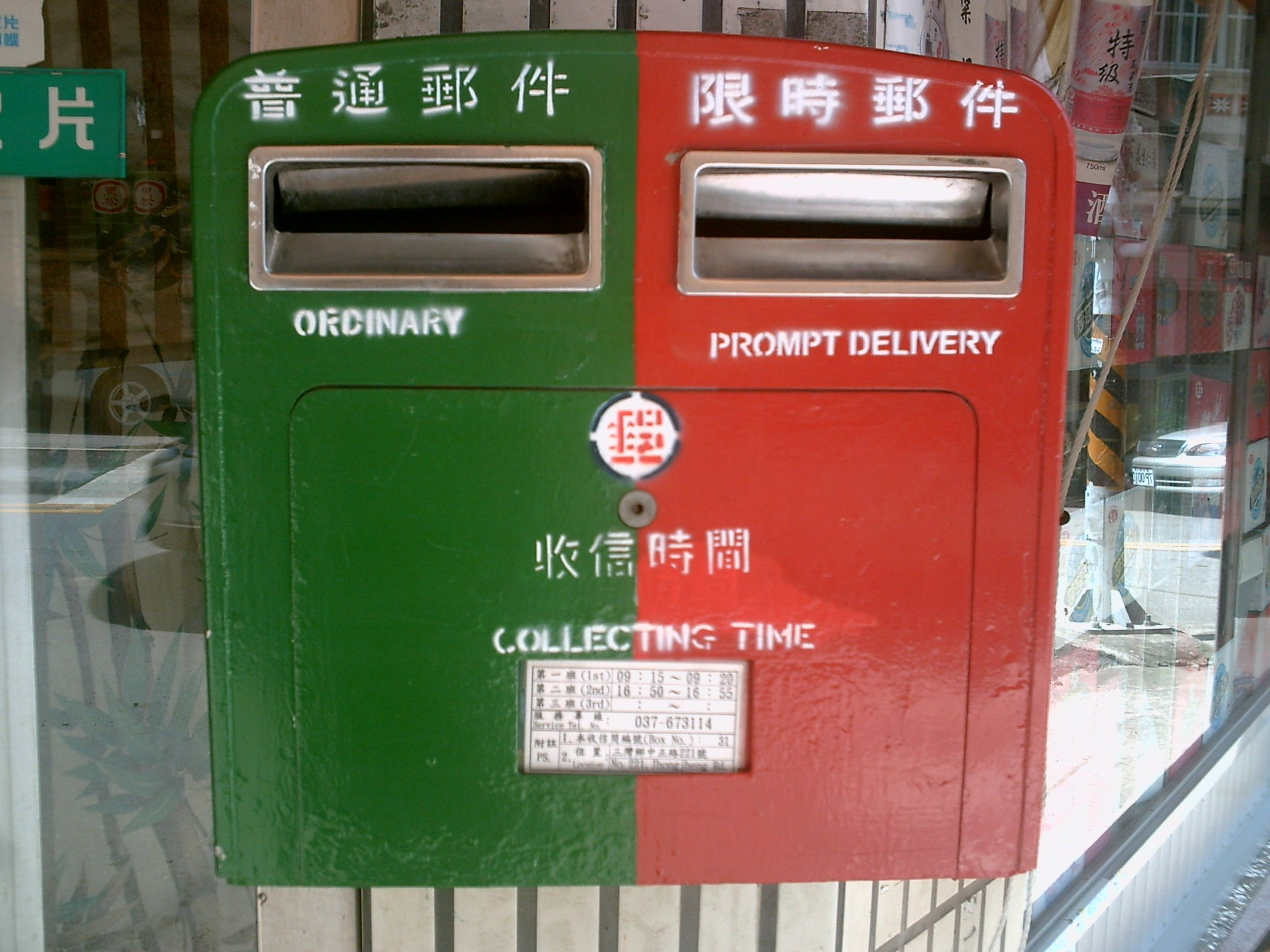 The mailbox at No. 221, Jhongjheng Road, Sanwan Township, Miaoli County.